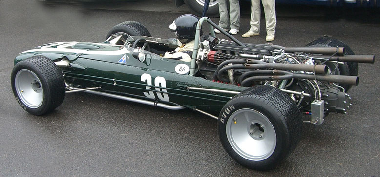 1967 Cooper-Maserati T86 car at the 2006 Goodwood Festival of Speed